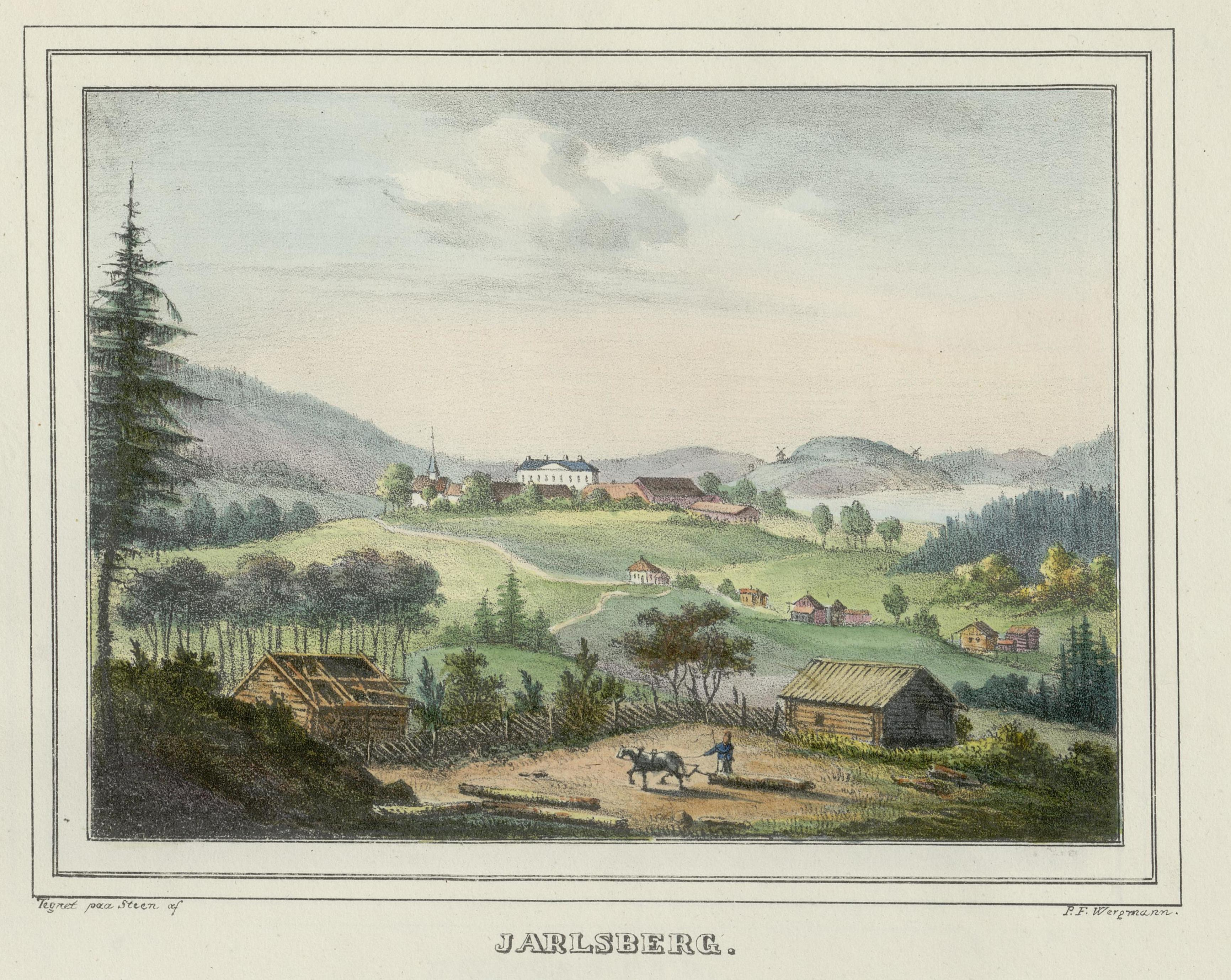 Illustration from the book "Norsk Prospect-Samling" by Wergmann, P.F. and published by P.F. Wergmann (no, 1833-1836)